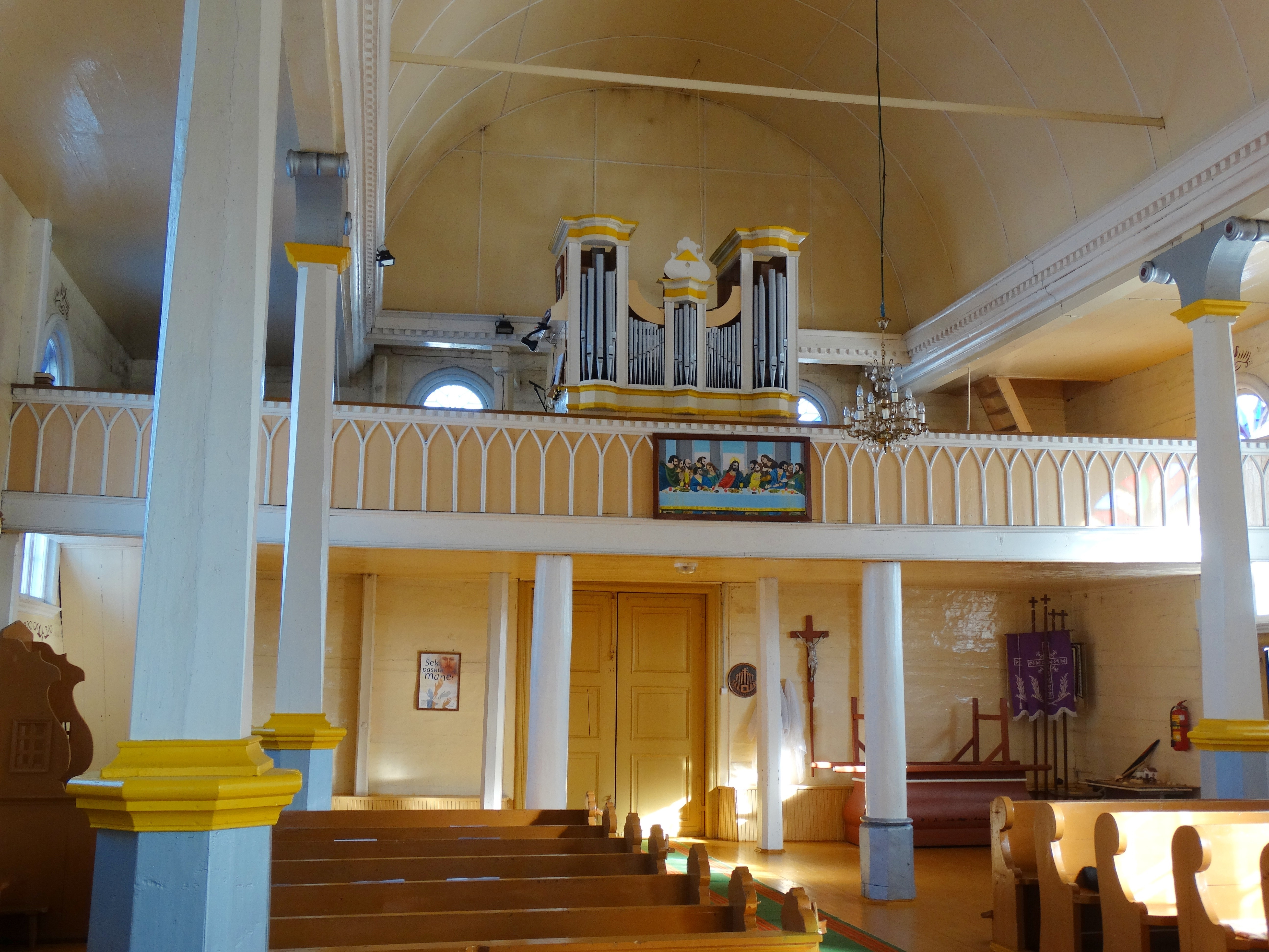 Catholic Church, pipe organ, Tūbinės I, Šilalė district, Lithuania